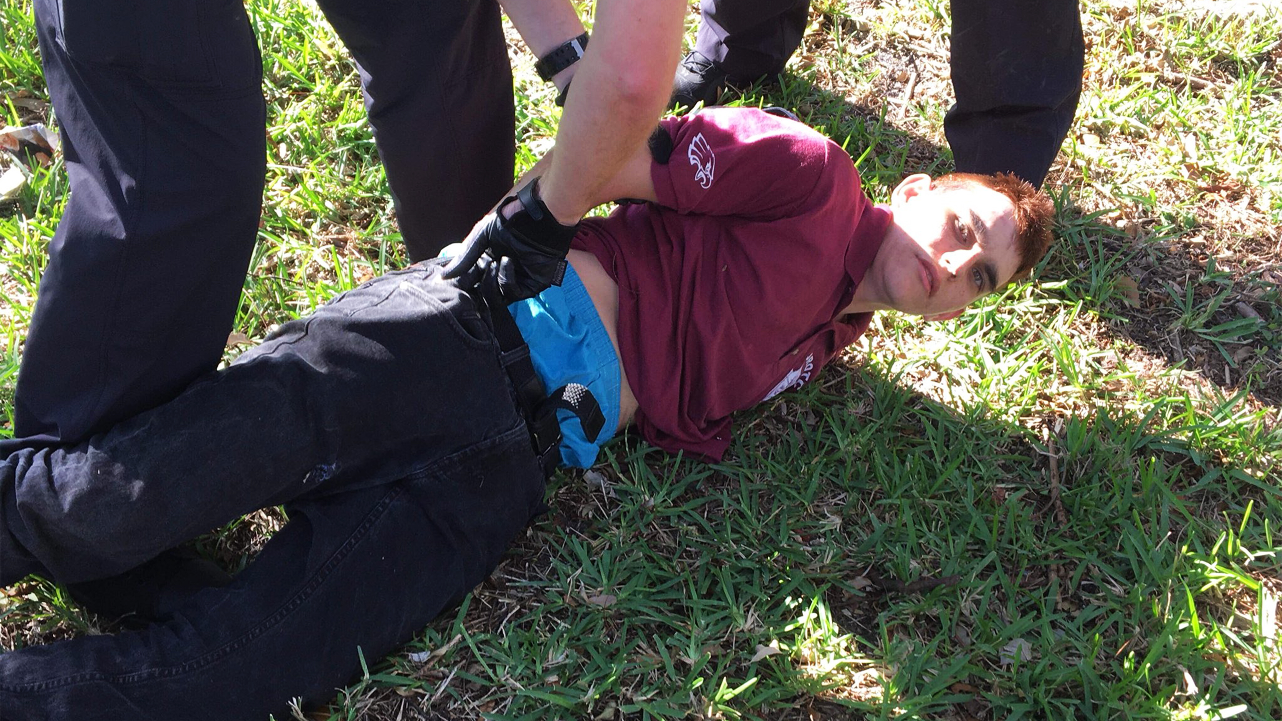 Nikolas J. Cruz being arrested by police in Florida, February 14, 2018